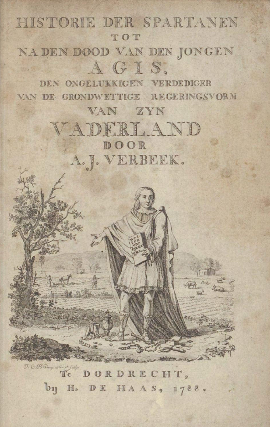 Title page of the book "Historie der Spartanen tot na den dood van den jongen Agis, den ongelukkigen verdediger van de grondwettige regeringsvorm van zyn vaderland", by Albert Jan Verbeek (1758-1829).